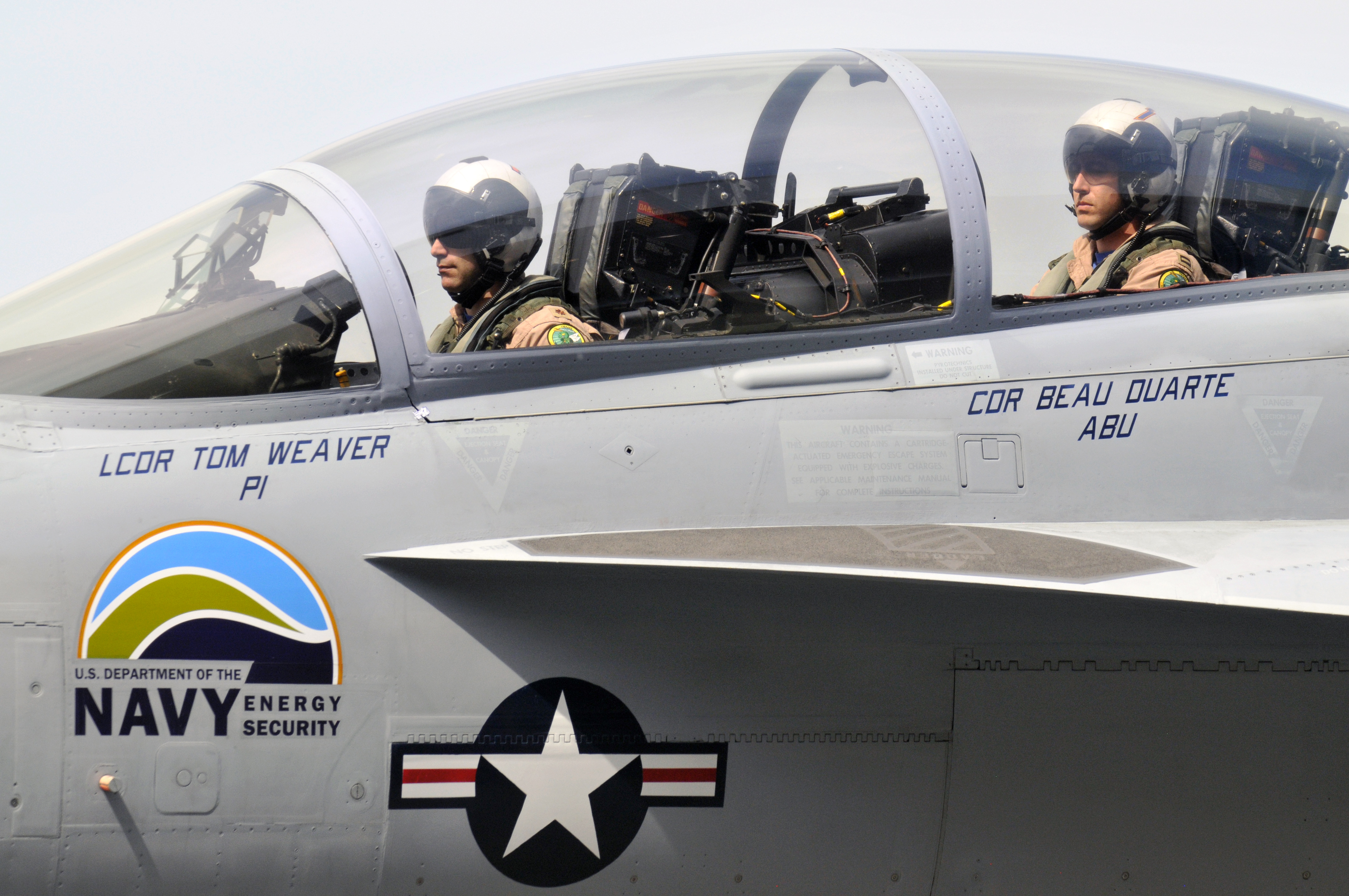 PATUXENT RIVER, Md. (April 22, 2010) Navy pilots Lt. John Kollar and Lt. Cmdr. Tom Weaver sit in the cockpit of the Navy F/A-18 "Green Hornet" following a supersonic flight test, powered by a 50/50 blend of biofuel. The test, conducted at Naval Air Station Patuxent River, Md., drew hundreds of onlookers that included Secretary of the Navy Ray Mabus, who has made research, development, and increased use of alternative fuels a priority for the Department of the Navy. (U.S. Navy photo by Mass Communication Specialist 2nd Class Kevin S. O'Brien/Released)